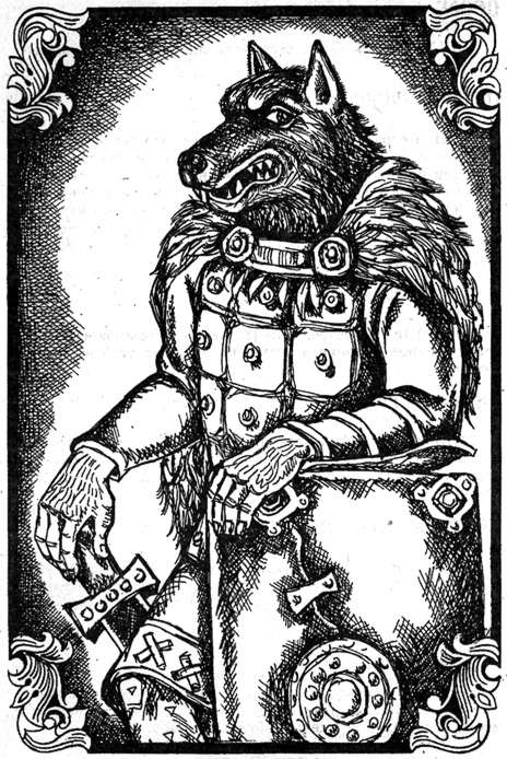 Pesiglavets